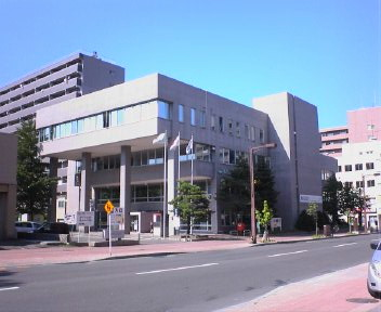 Nishi Ward Office in Sapporo City, Japan